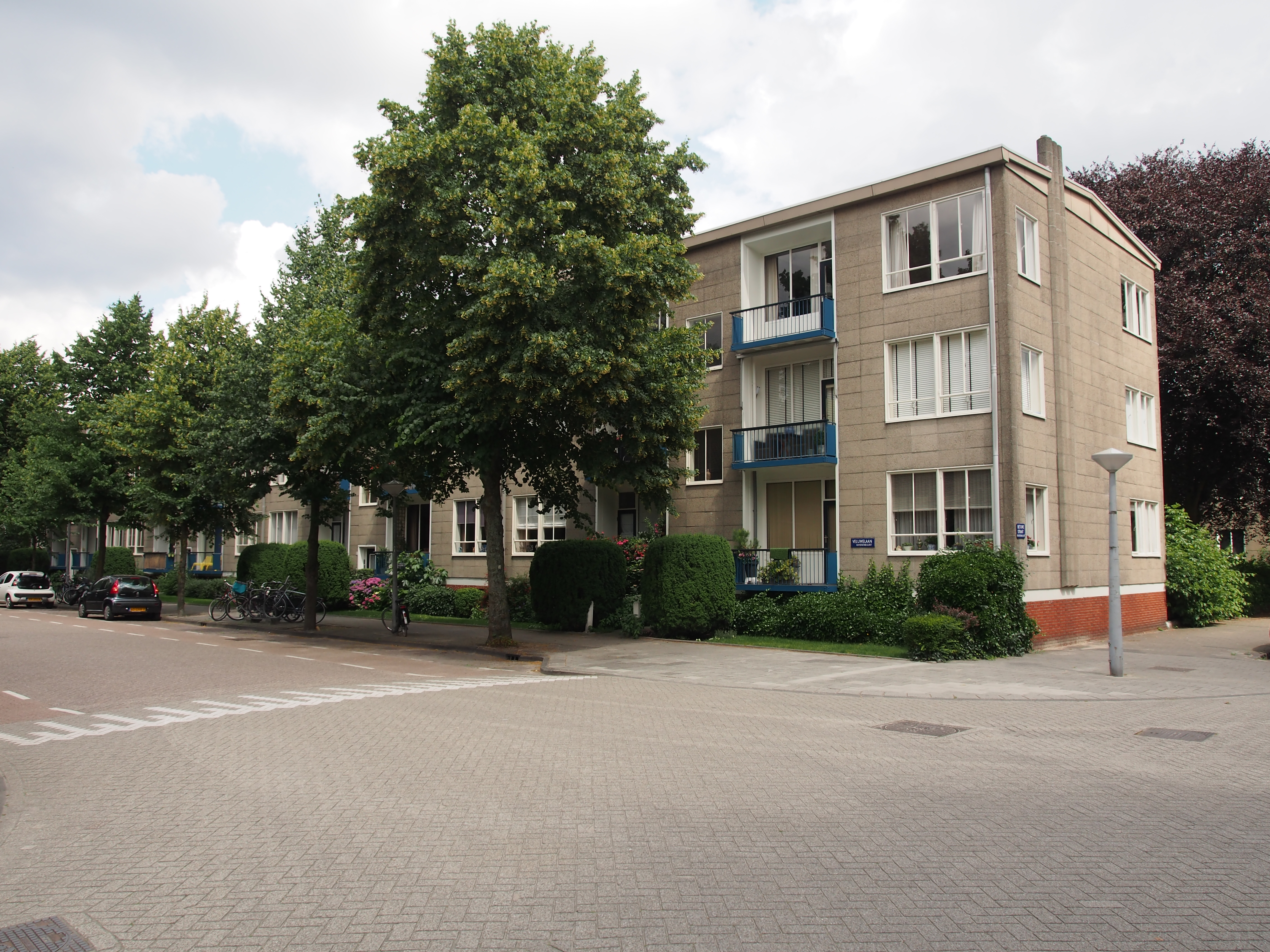 Photographed in Amsterdam.